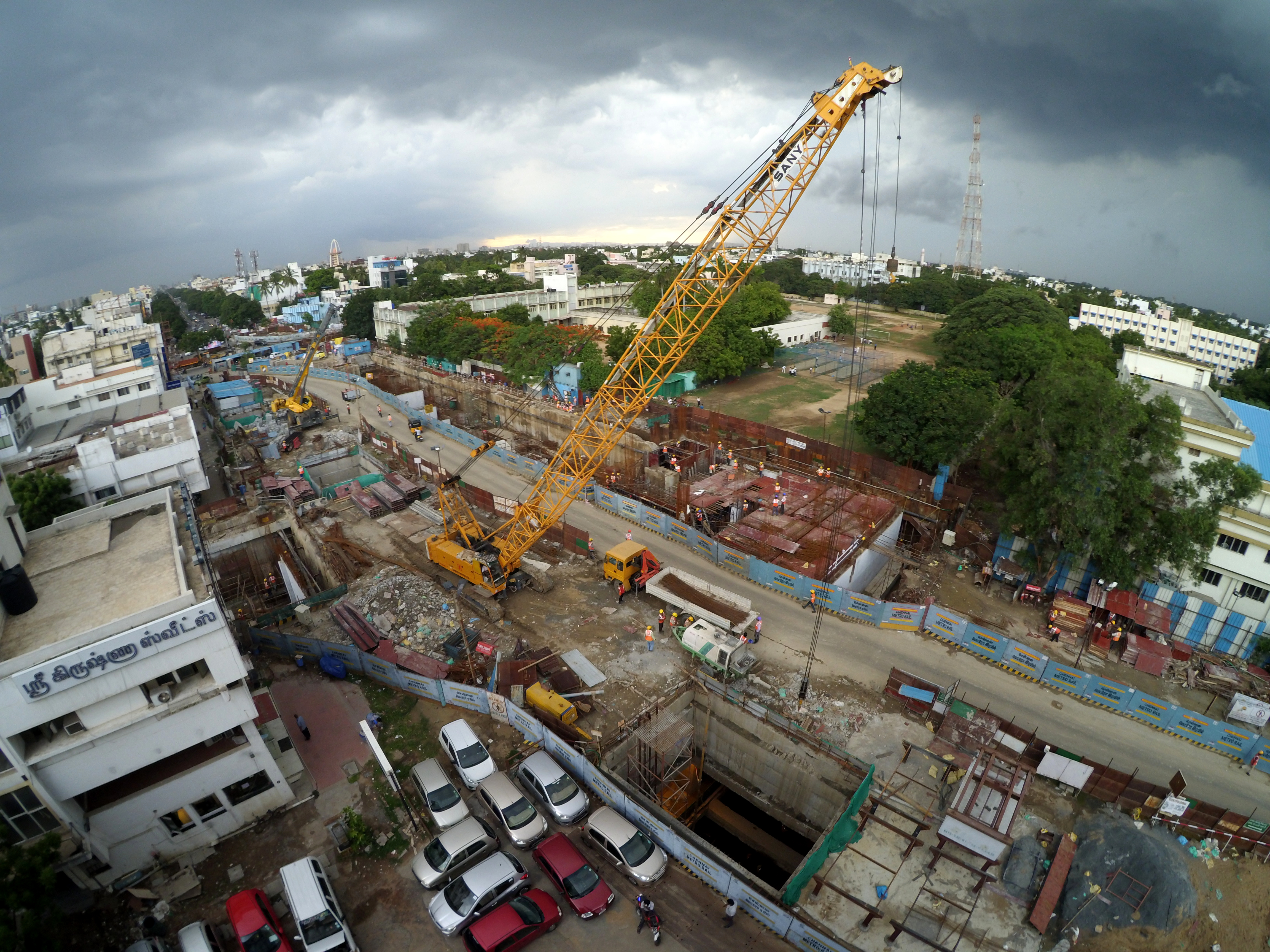 Anna Nagar East, a cloudy evening on 2015-07-27. Can see the underground Anna Nagar East metro railway station work is going on there.